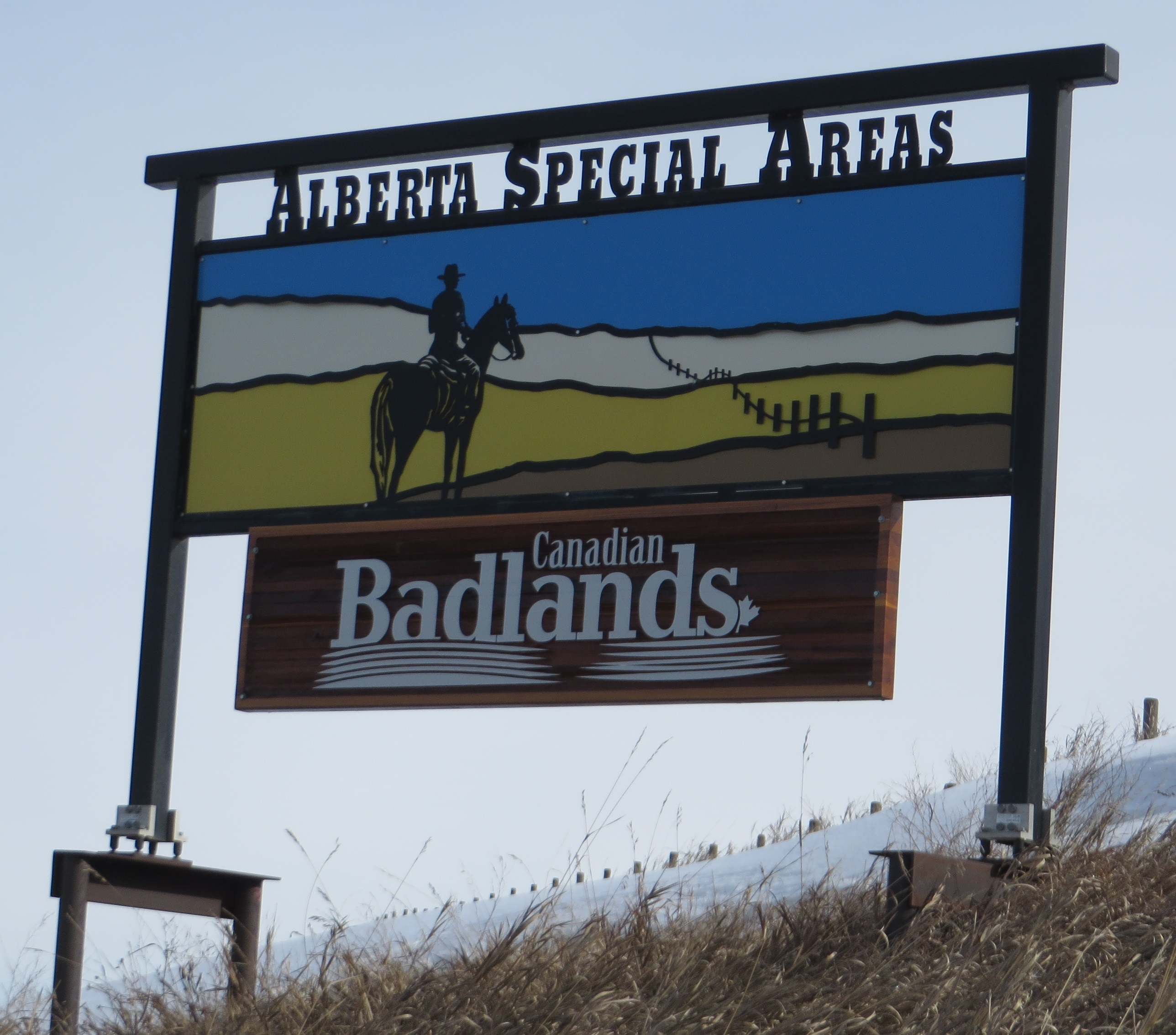 Sign marking the borders of Alberta's three Special Areas.